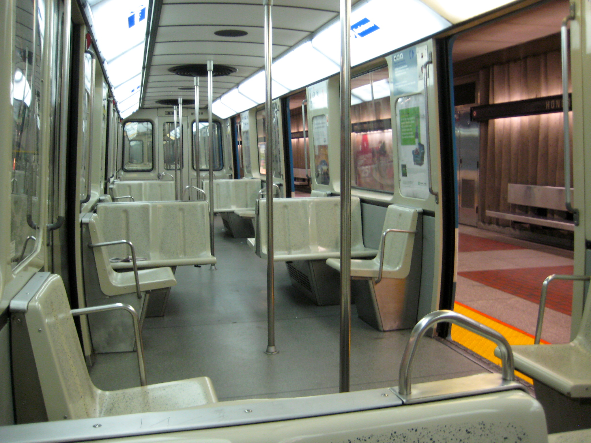 The inside of an MR-63 train.